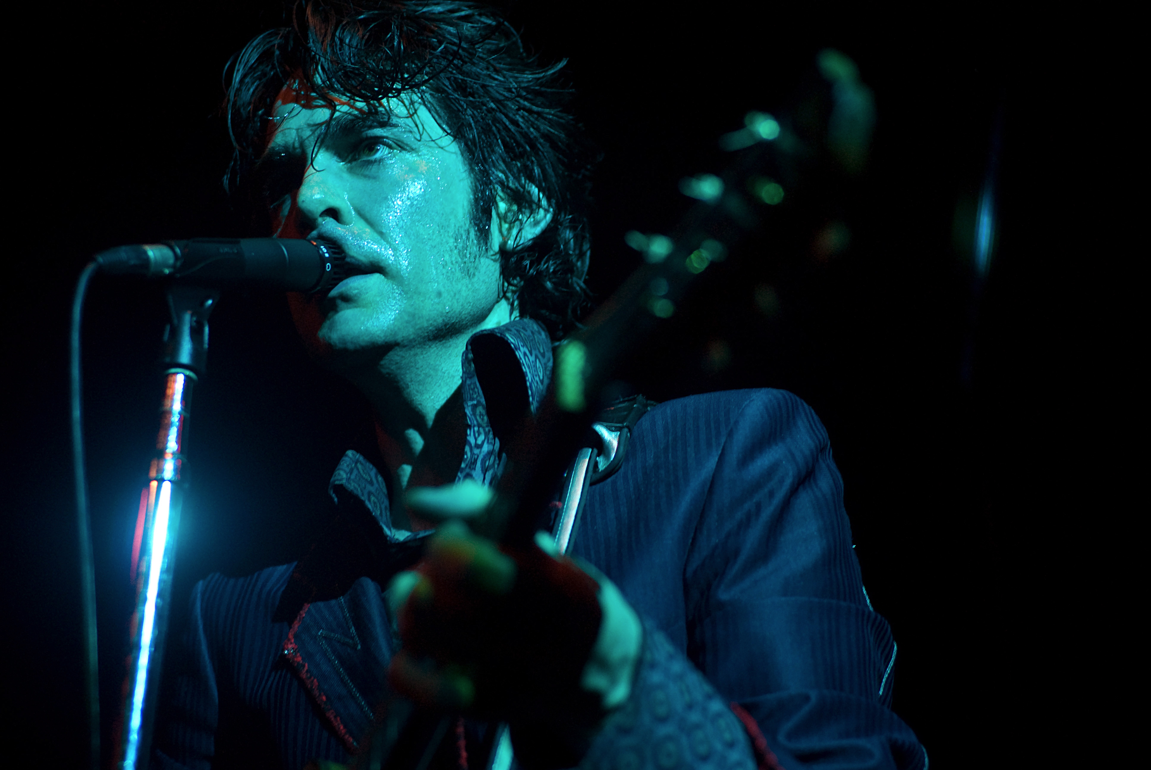 Jon Spencer from Heavytrash live in São Paulo - Brazil - Apr/23/2009